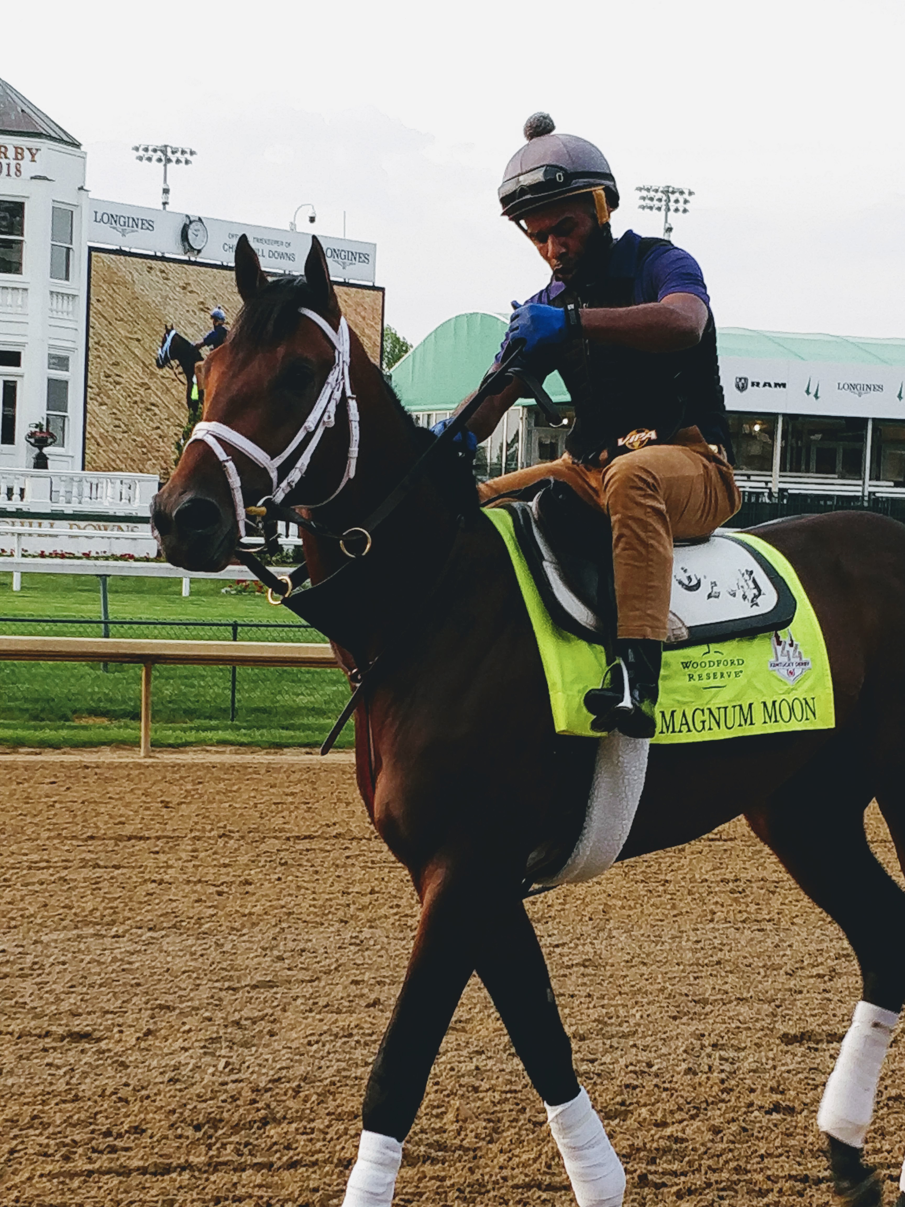 Pre kentucky Derby Workout - Magnum Moon Feel free to use this photo however you like, just attribute . Thanks!